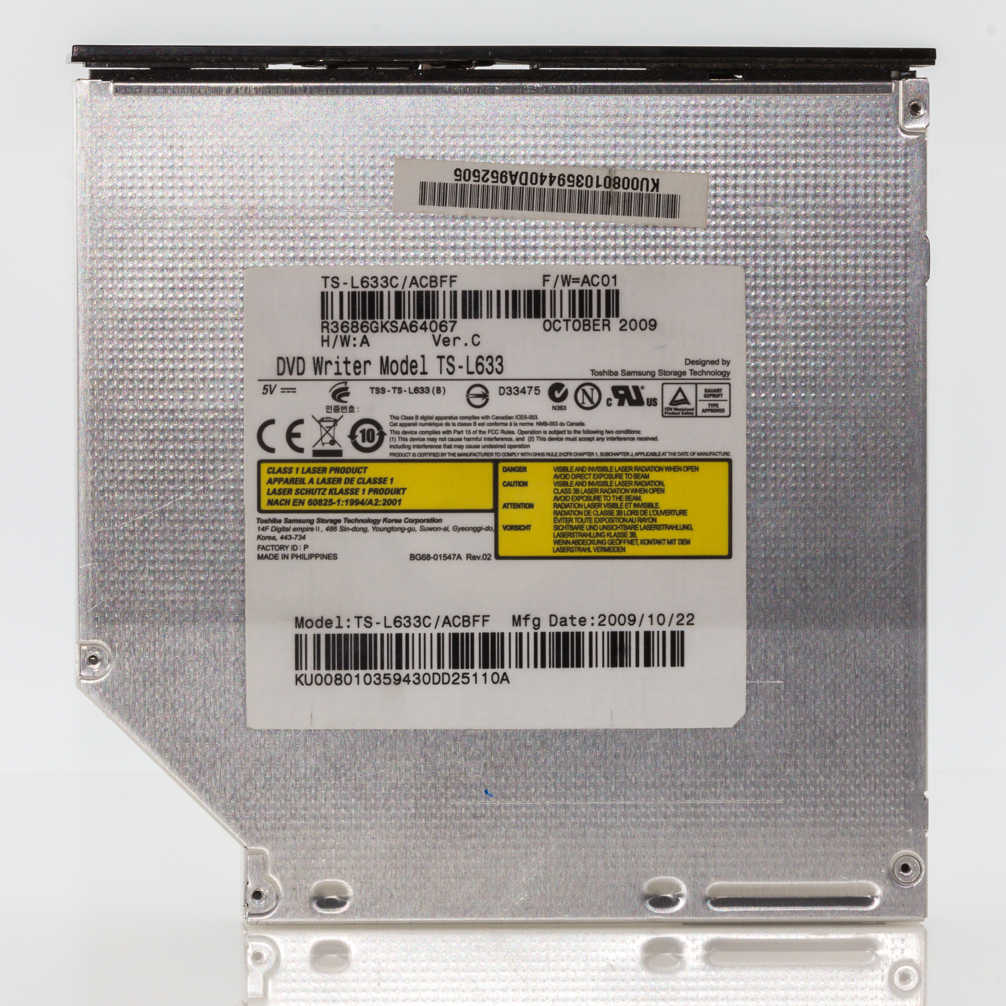 SlimLine drive DVD Writer TS-L633C/ACBFF, Toshiba Samsung Storage Technology